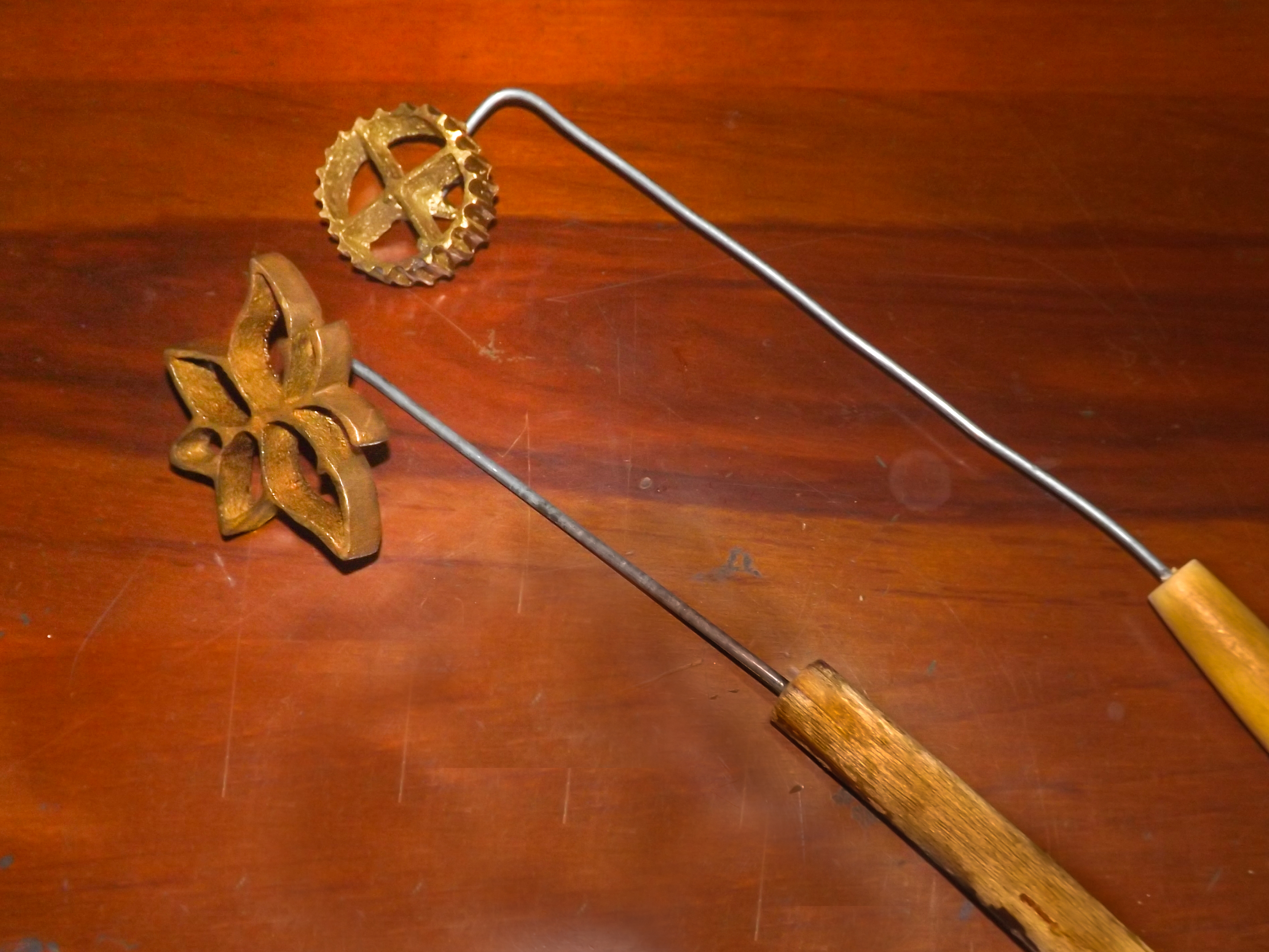 Molds used for making Kokis, a traditional dish in Sri Lanka.